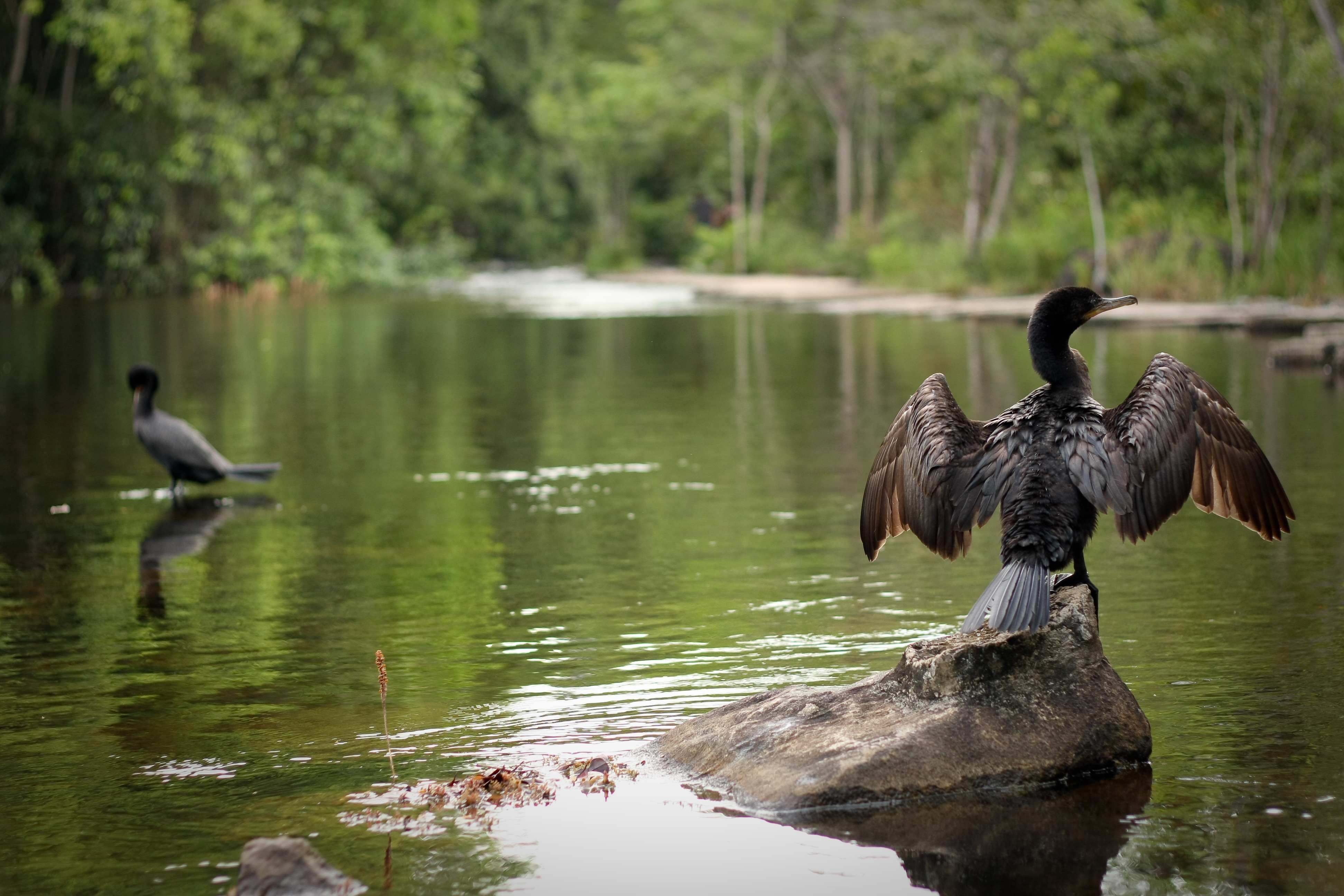 Birds at La Llovizna Park